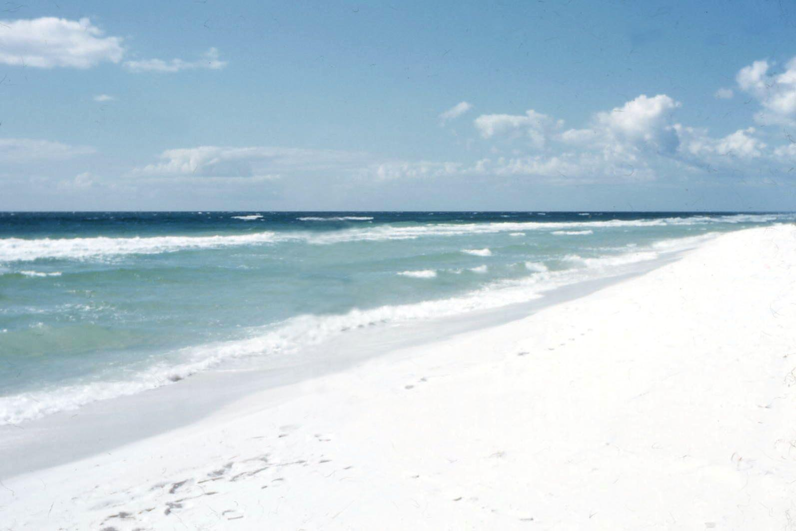 Pensacola Beach, 1957. Beach shows extremely white sand color.